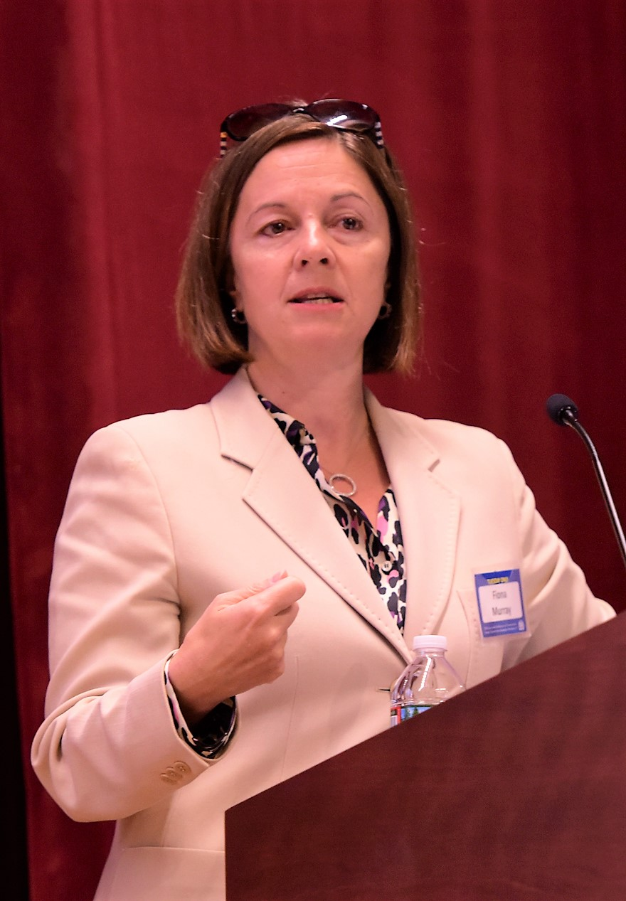 190430-N-WD117-088 NEWPORT, R.I. (April 30, 2019) Fiona Murray, associate dean at Massachusetts Institute of Technology’s Sloan School of Management, speaks about “Innovation Ecosystem Model” during the Diffusion and Adoption of Innovation Studio Summit (DAISS) 2.0 held at U.S. Naval War College April 30-May 2. DAISS 2.0 addresses methods for accelerating the creation, development and adoption of innovative warfighting solutions. The summit continues the partnership of collaborative work between NWC and Naval Sea Systems Command (NAVSEA) Warfare Centers to respond to the security environment, technology race and competition between global powers that exist today. (U.S. Navy photo by Jaima Fogg/released)